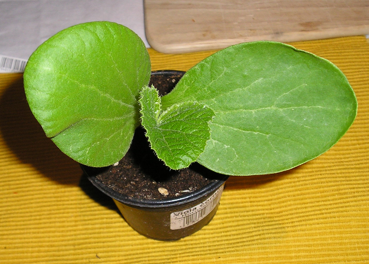 Seedling of Cucurbita maxima (Riesenkürbis), ten days old